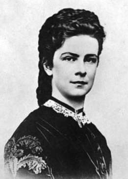 Elisabeth of Bavaria, Empress consort of Austria and Queen consort of Hungary due to her marriage to Emperor Franz Joseph